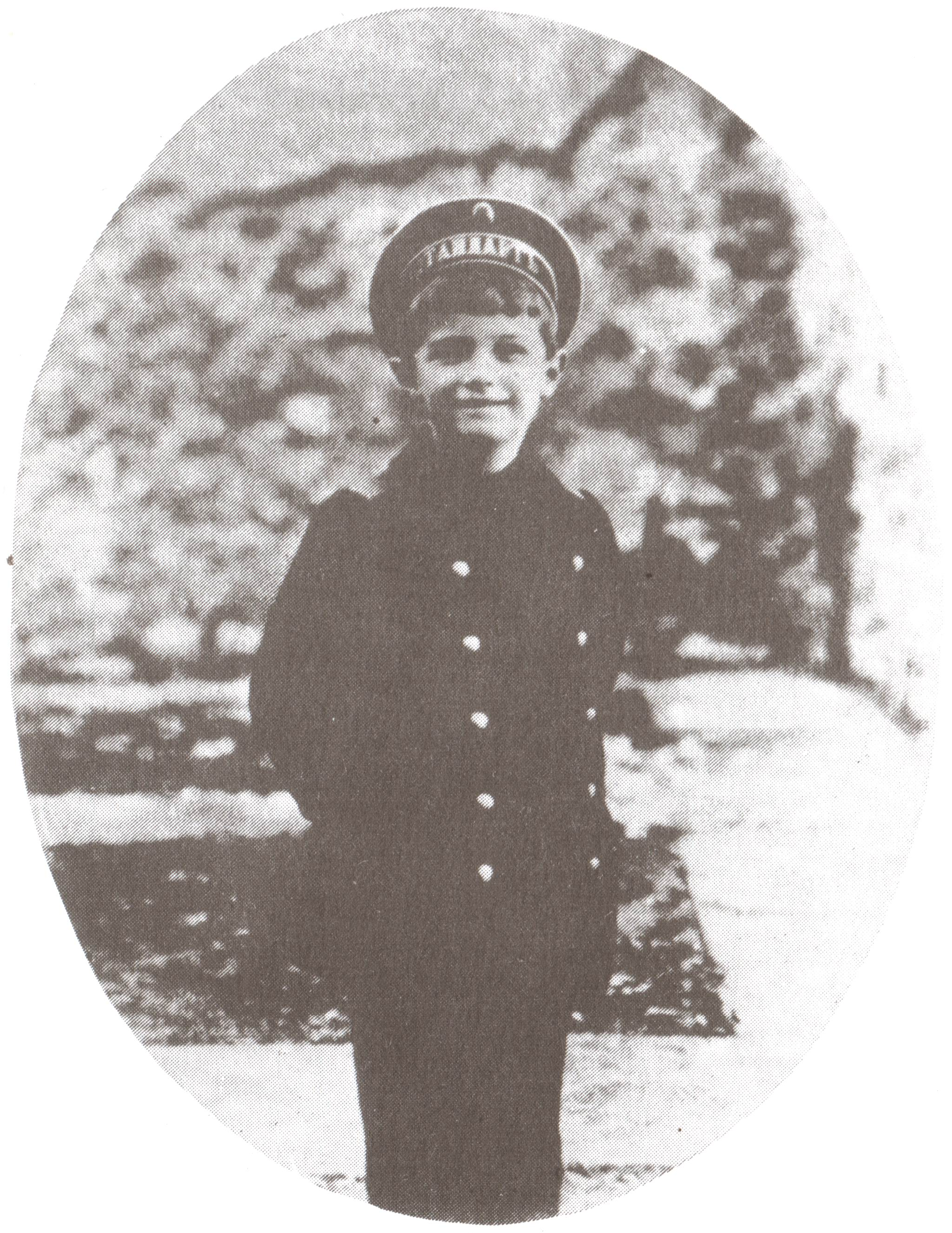 Tsarevich Alexei